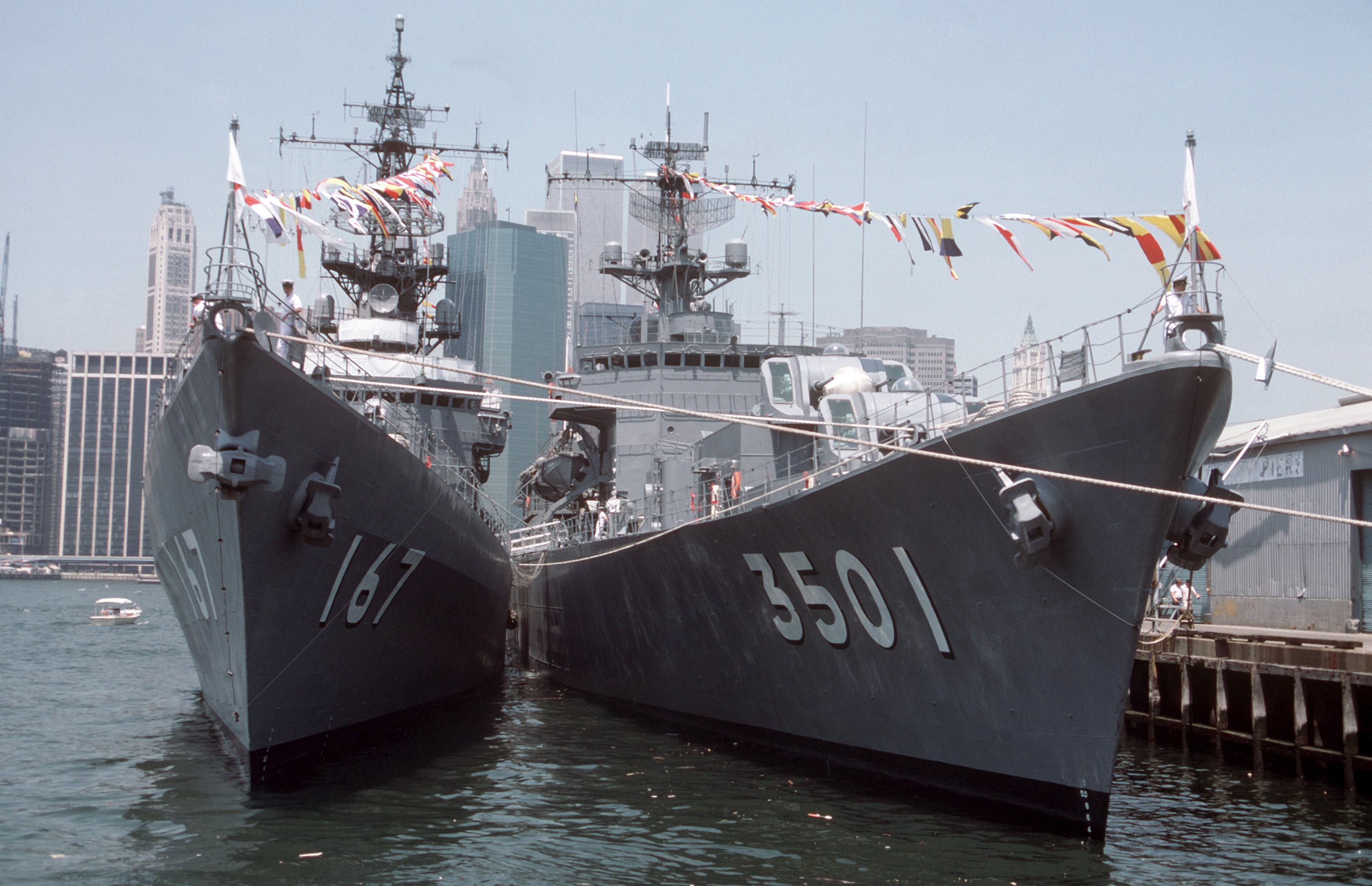 A bow view of the Japanese destroyer Nagatsuki (DD-167) and the training ship Katori (TV-3501) docked at a pier in New York Harbor during the International Naval Review.